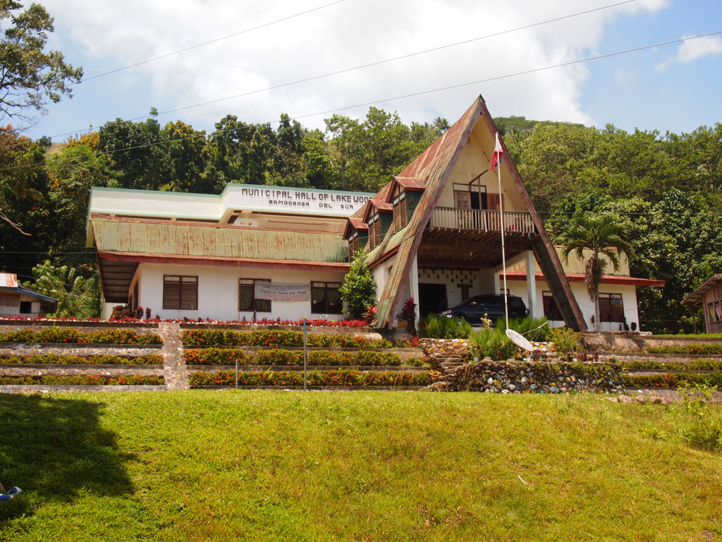 Municipial Hall of Lakewood